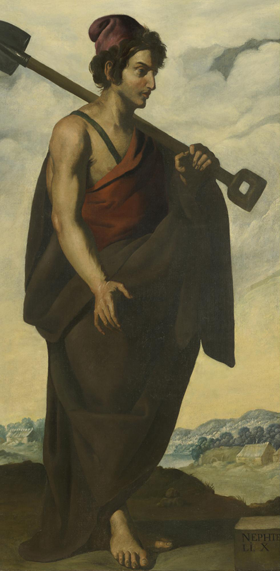 1640-1645 painting of the biblical patriarch by Francisco de Zurbarán